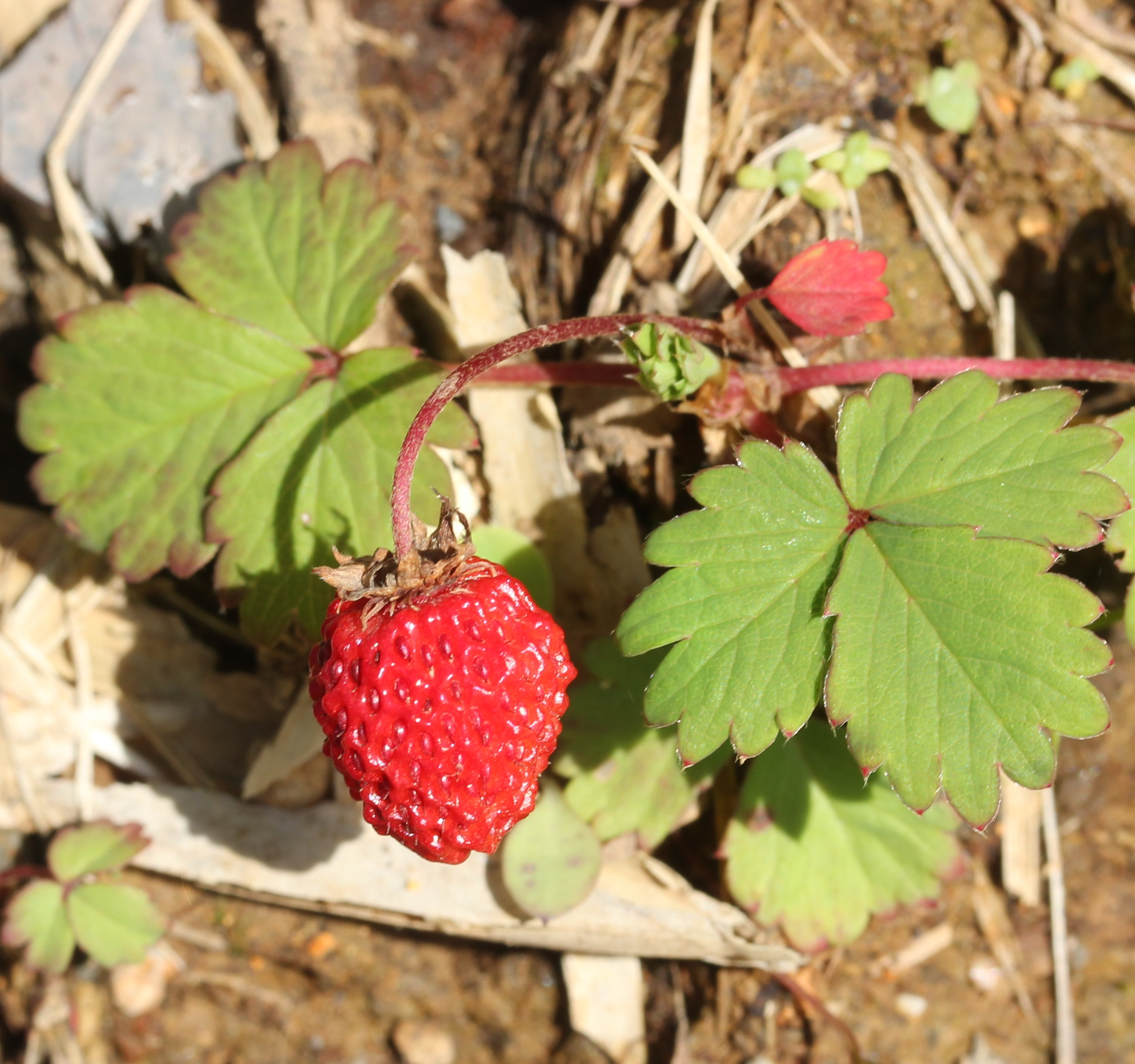 Fragaria iinumae, in Mount Haku, Shirakawa village,Gifu prefecture, Japan.